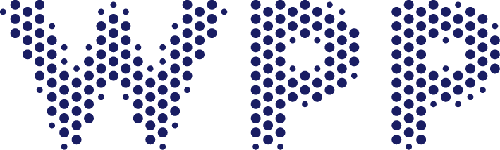 WPP logo